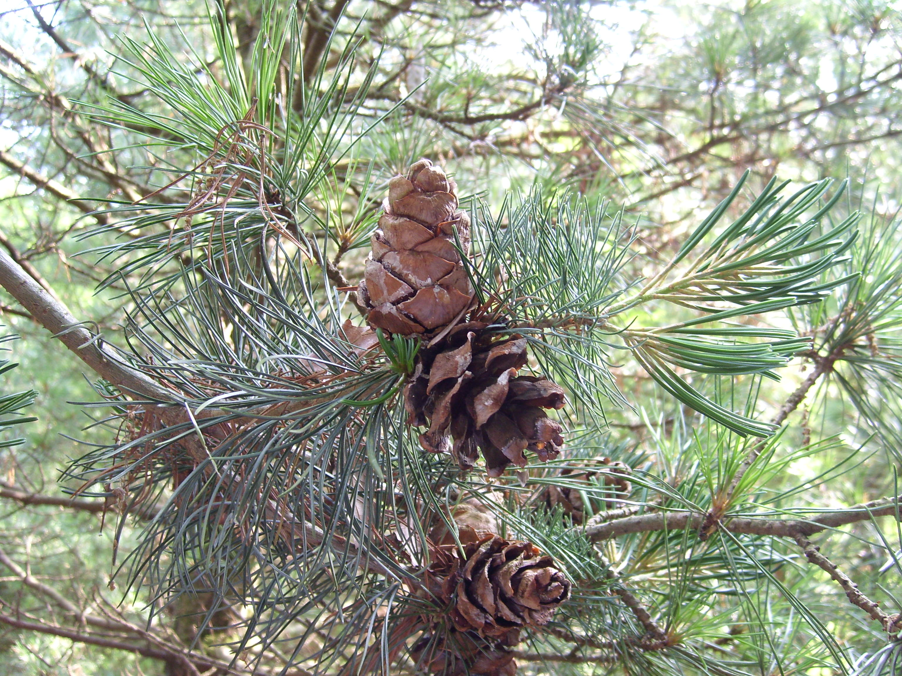 Cones and leaves of Pinus parviflora